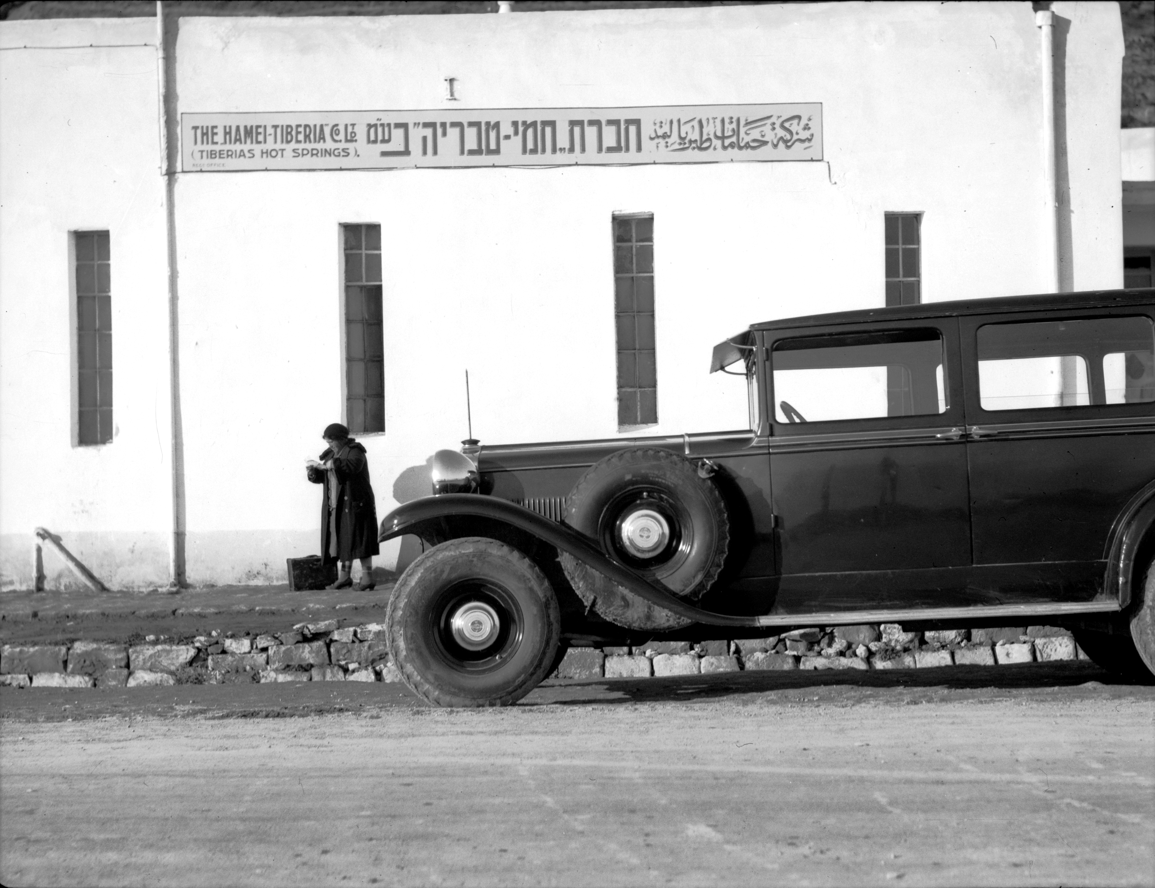 Hot baths in Tiberias